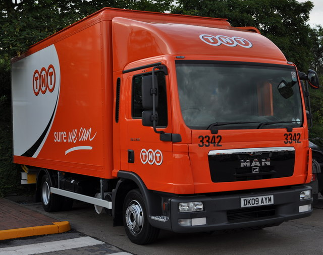 TNT lorry